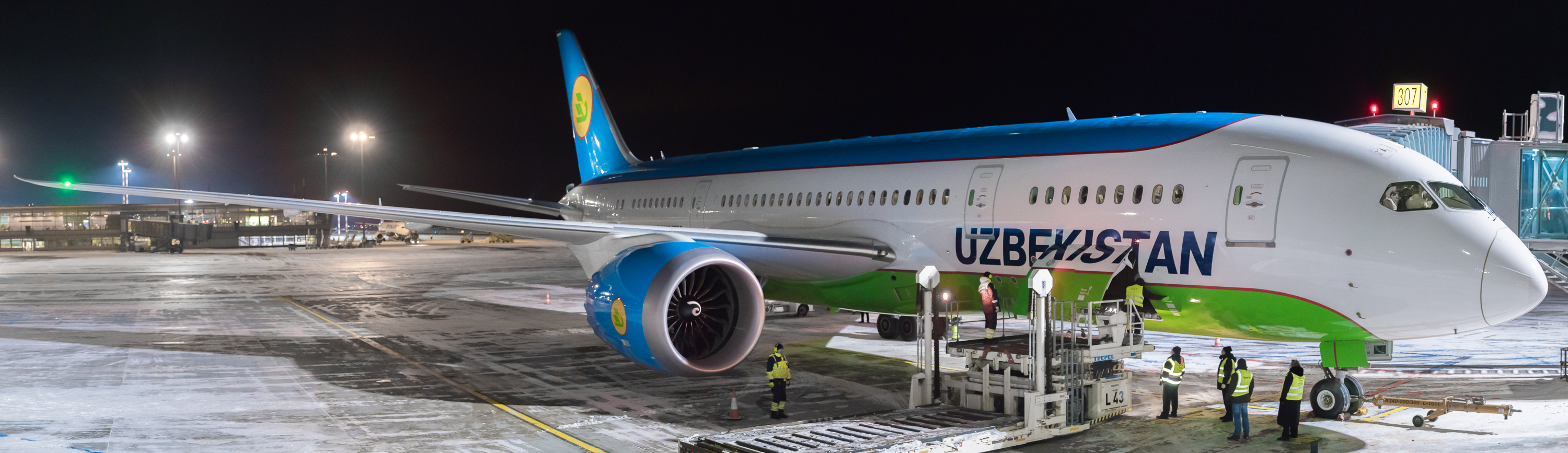 Boeing 787 Dreamliner at Riga Airport